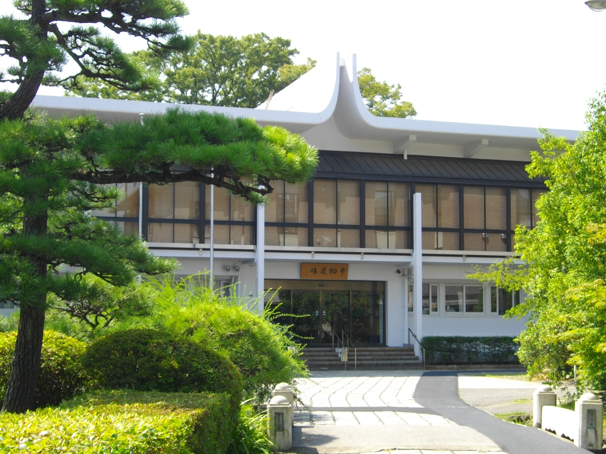 Kokuchukai Headquaters